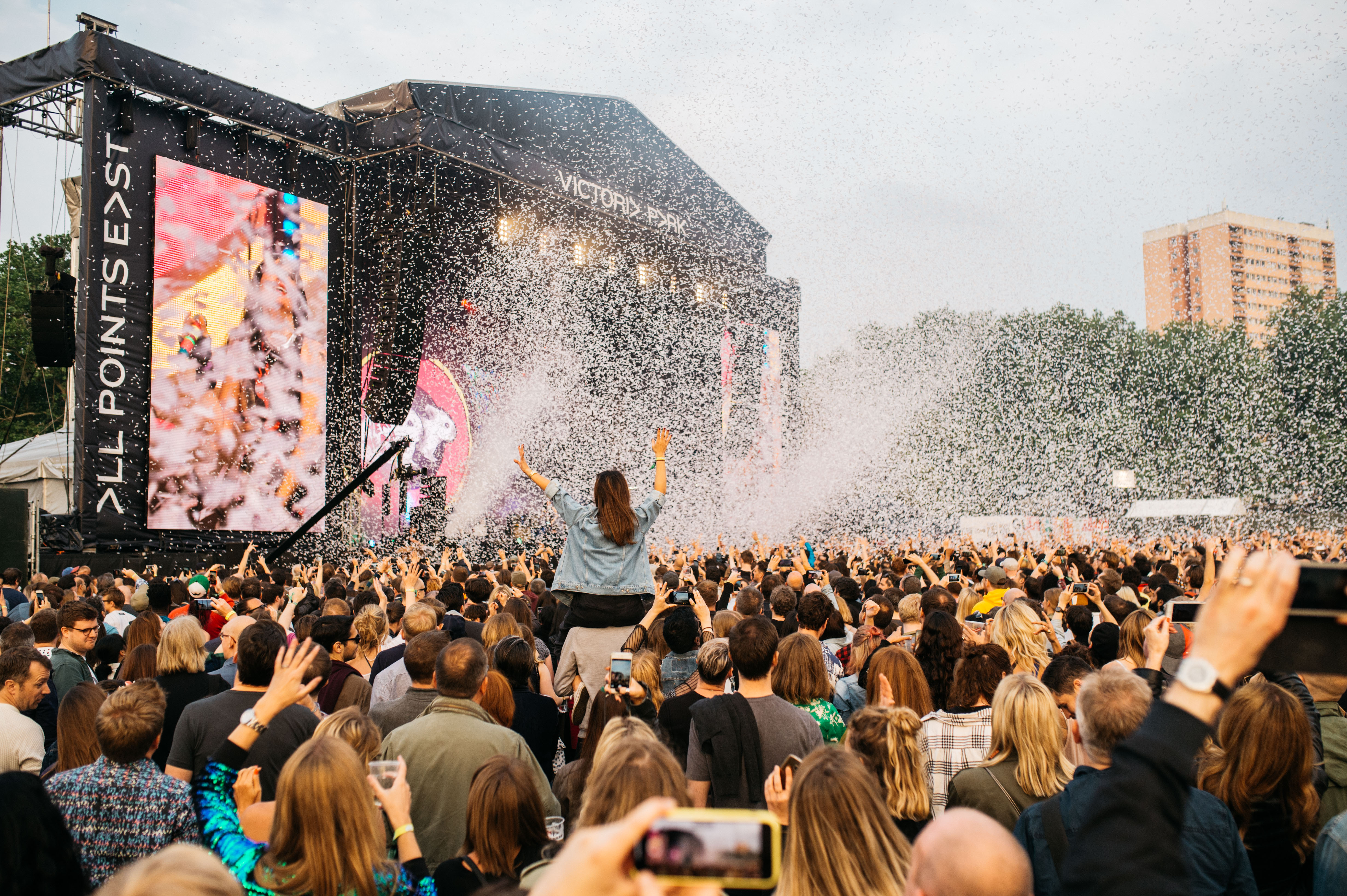 Yeah Yeah Yeahs at All Points East Festival 2018. By Jordan Curtis Hughes